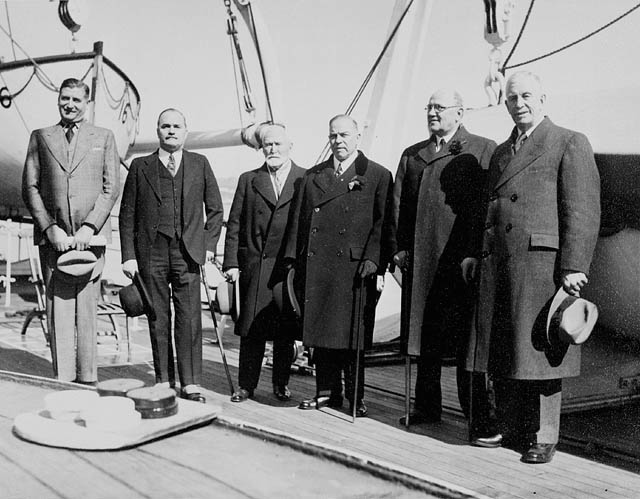 Rt. Hon. W.L. Mackenzie King and colleagues aboard RMS Empress of Australia en route to the Imperial Conference. (L-R): Hons. Ian Mackenzie, Charles Dunning, Raoul Dandurand, Rt. Hon. W.L. Mackenzie King, Hons. Ernest Lapointe, Thomas Crerar